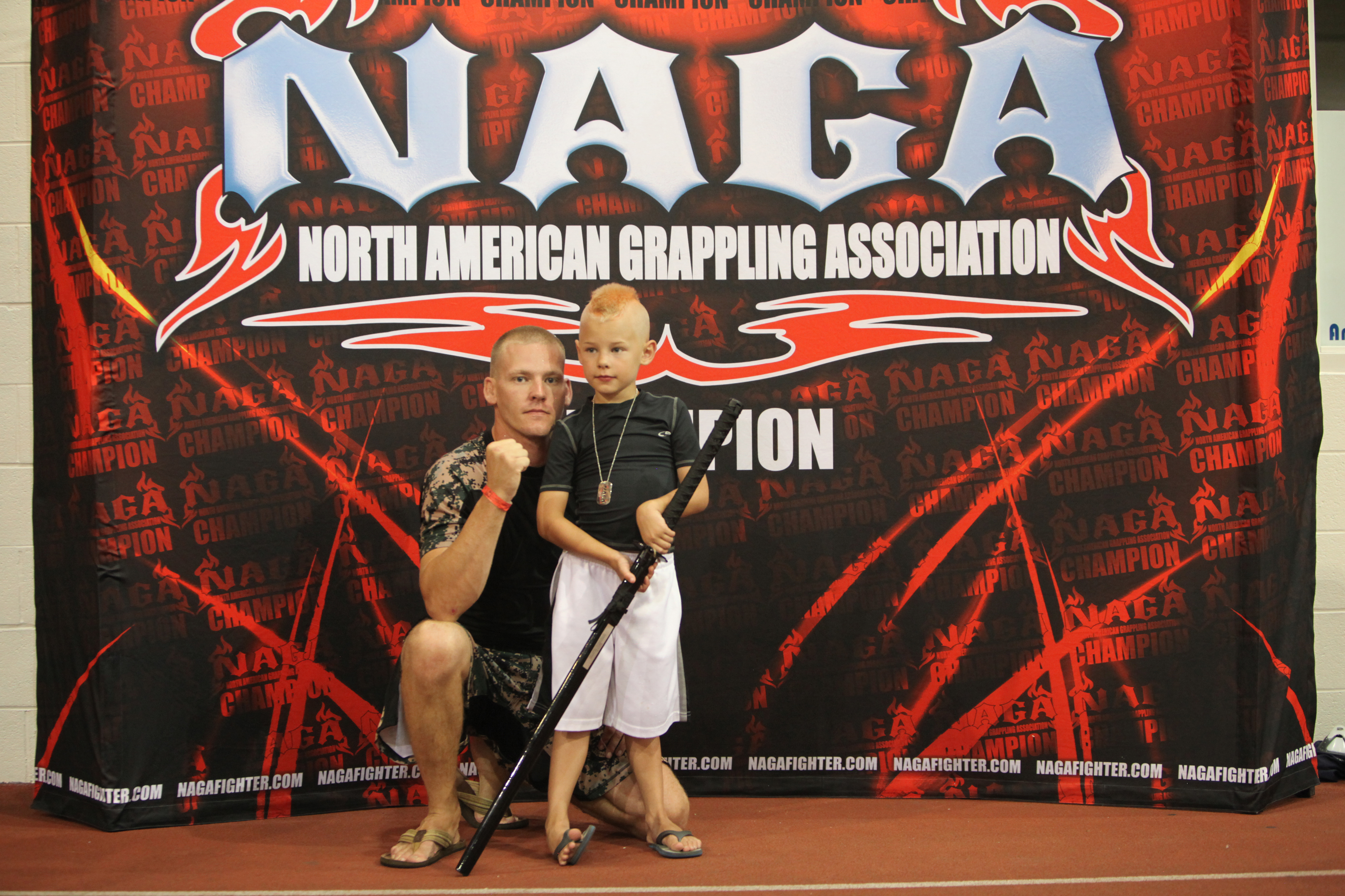 Sgt. James W. Bridger (Left), a combat engineer with 8th Engineer Support Battalion, 2nd Marine Logistics Group, poses for a picture with his son, Christian, after participating in a North American Grappling Association tournament at Boo Williams Sportsplex in Hampton, Va., June 23, 2012. During the competition, Christian won first and third place in each respective category in which he competed. This is the first time Christian participated in an official grappling tournament alongside his father.